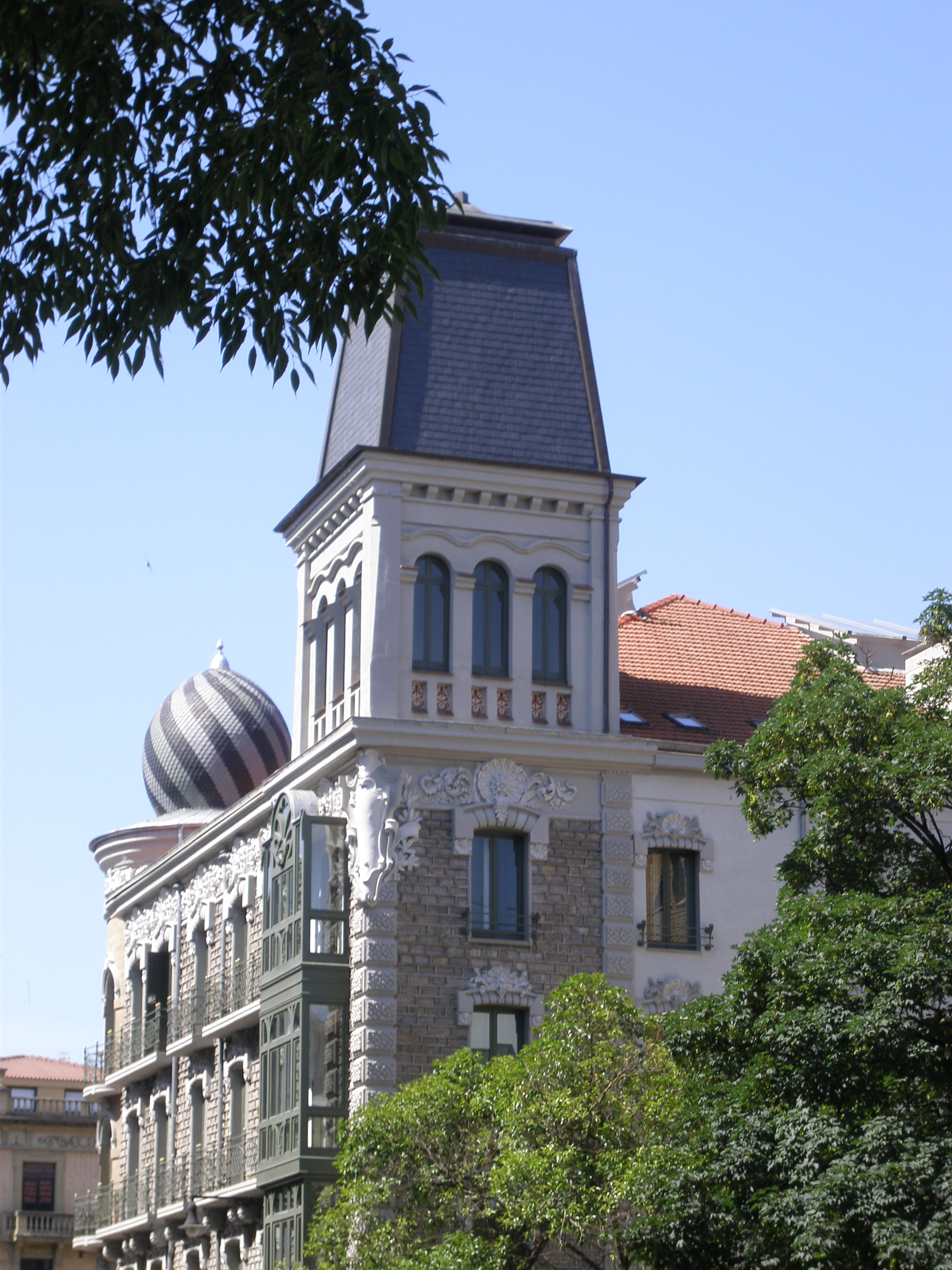 Beautiful building in Iruñea (Pamplona)